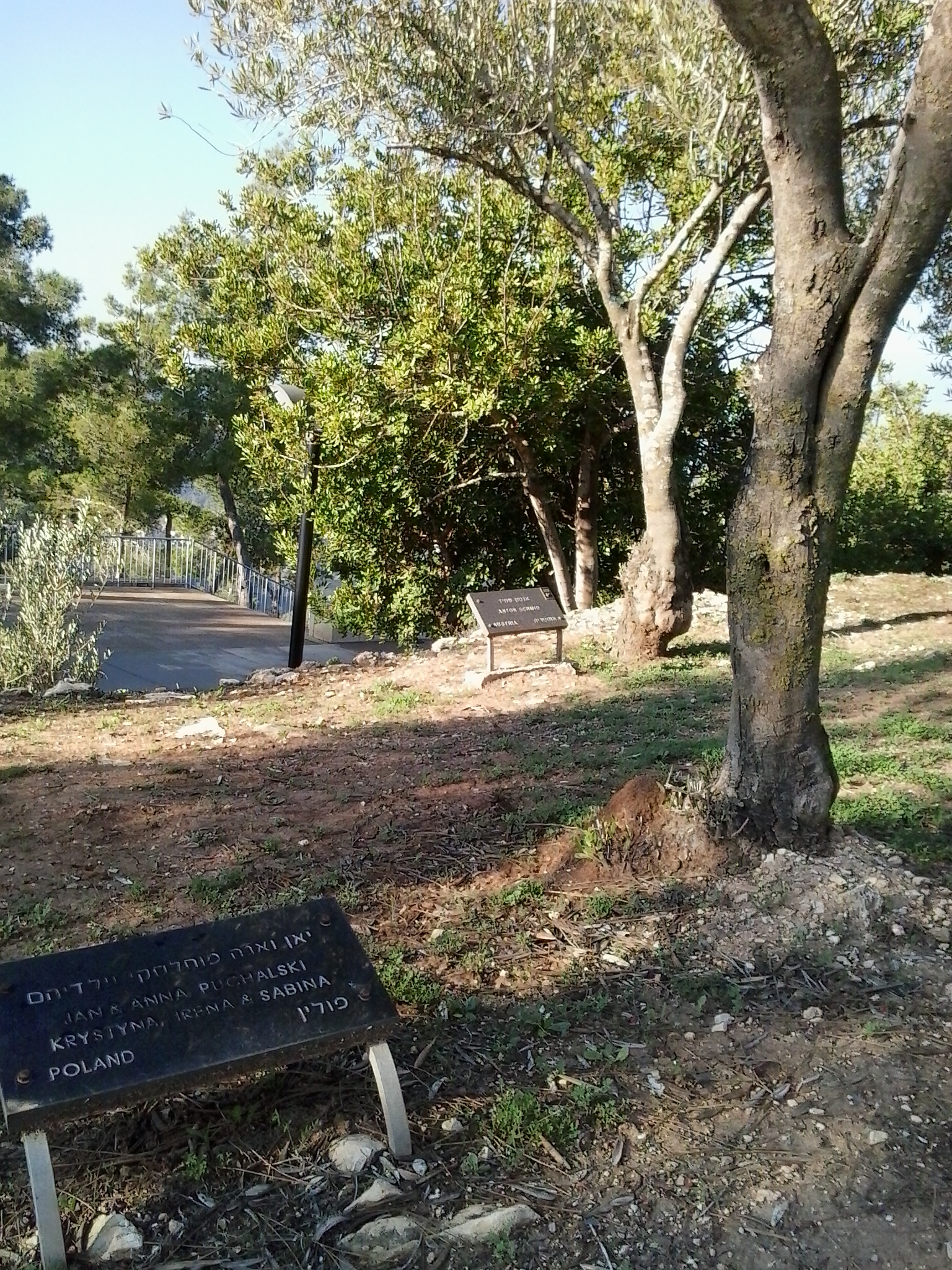 The tree planted at Yad Vashem honoring Righteous Among the Nations Puchalski